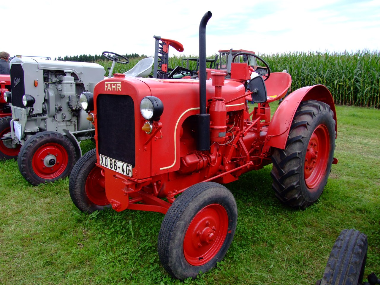 One of the first Fahr F 22 tractors, 22 hp, series built 1938–1941